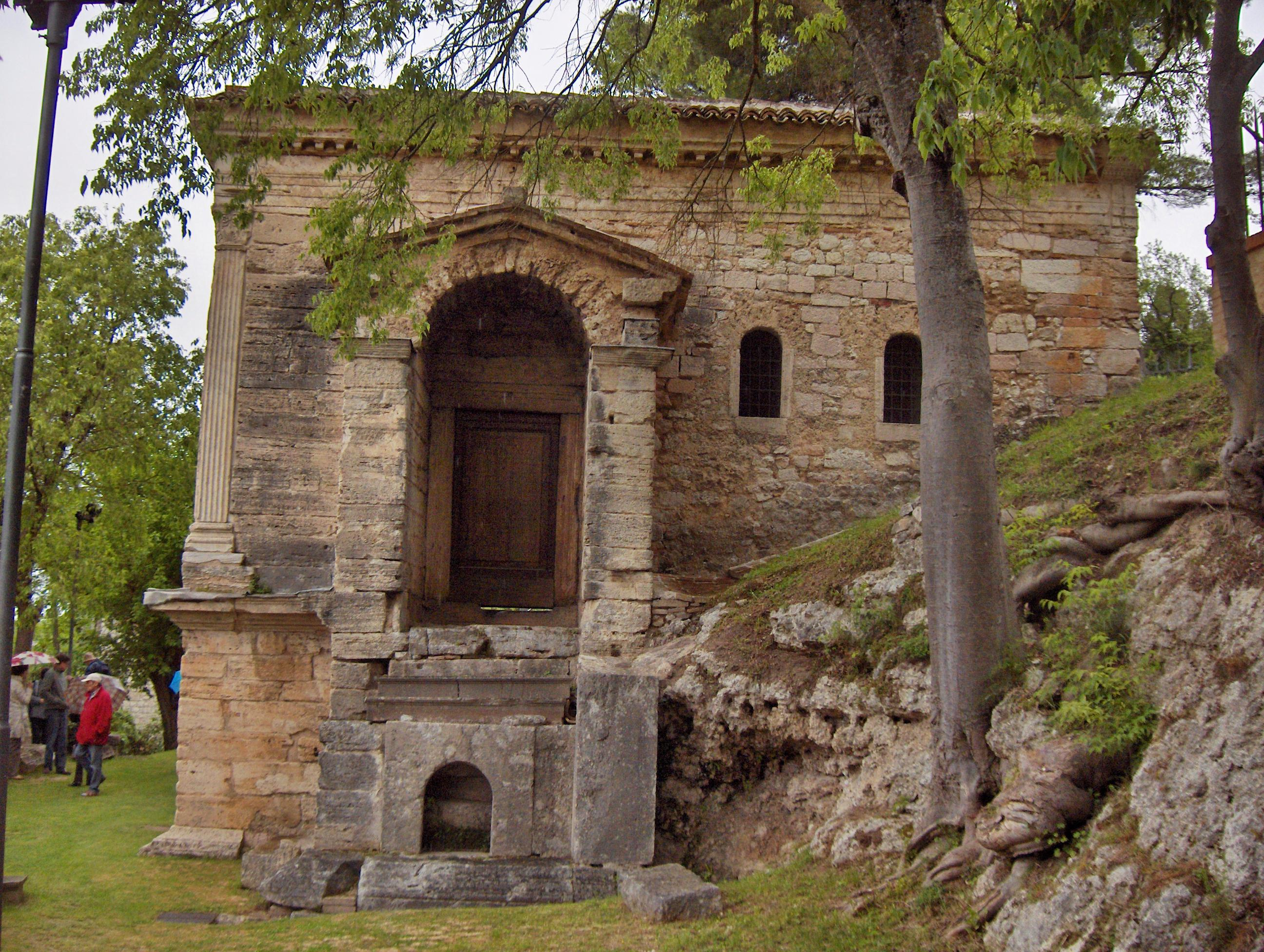 The former Roman temple dedicated to the river god Clitumnus and transformed into an early-Christian church (probably in the fourth century); located in Campello sul Clitunno, south of Trevi, Italy.